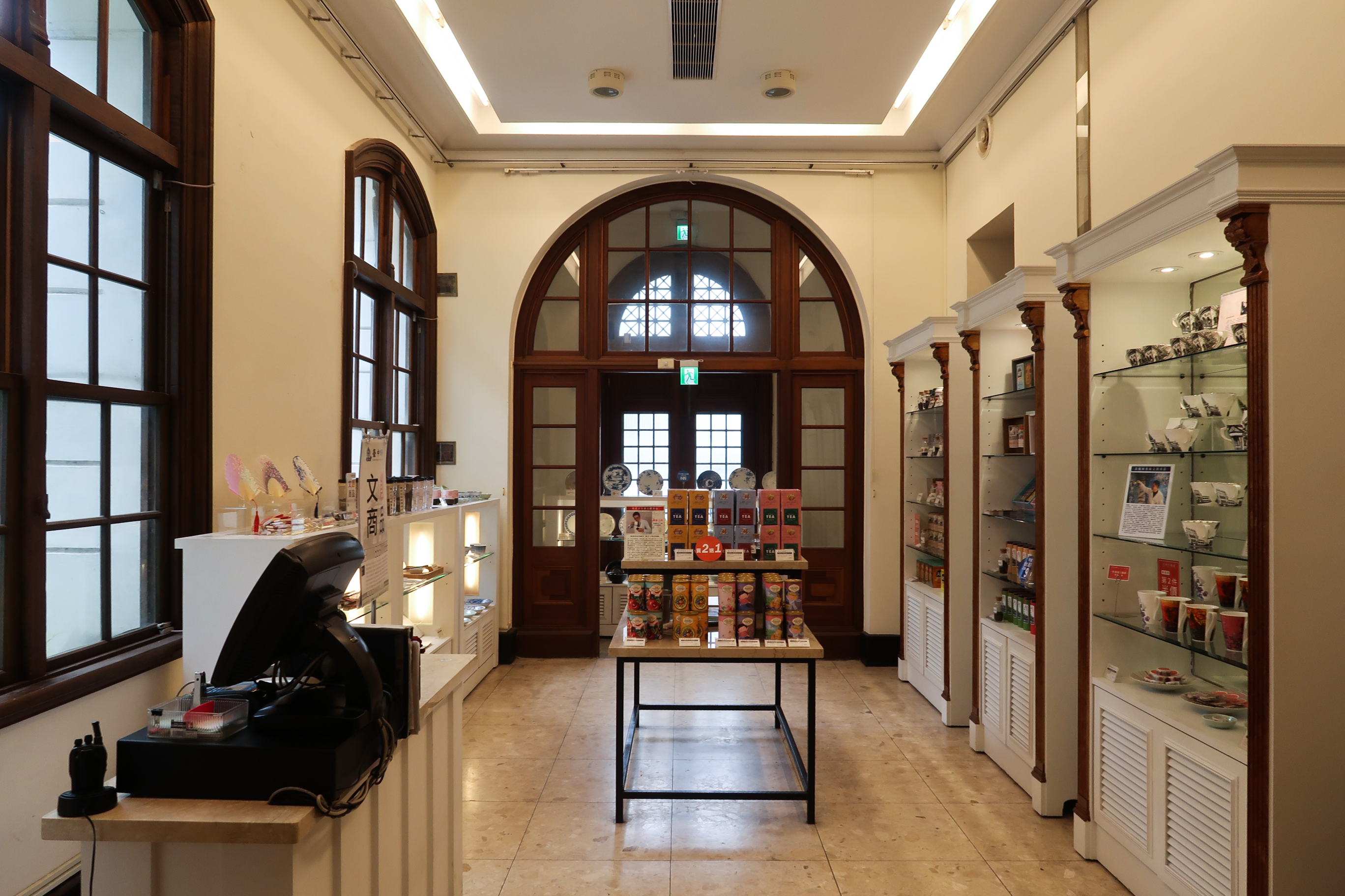 Taichung Municipal Office Building